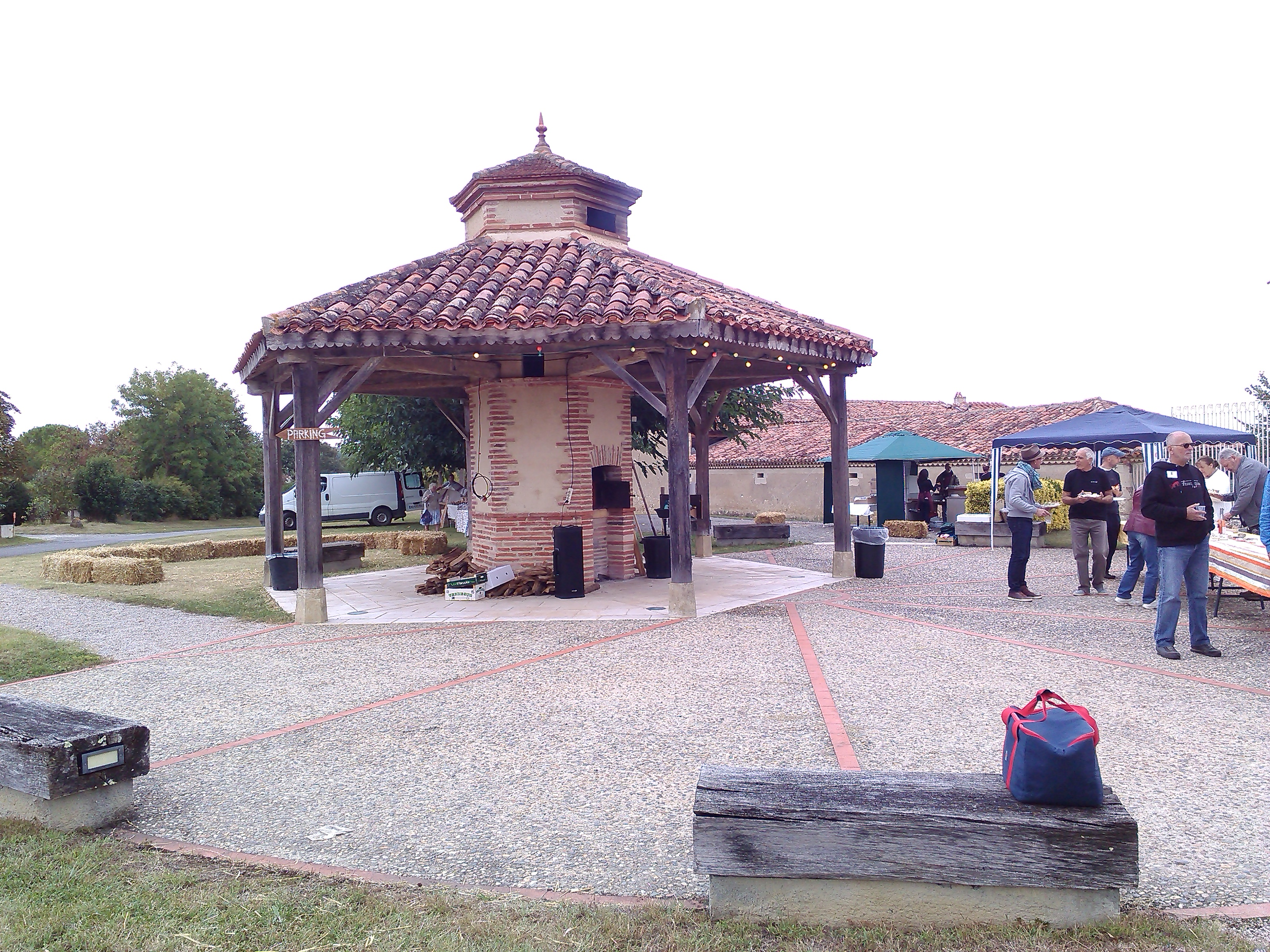 Gathering for the village fete centered around the communal bread oven at Mazères, Lartigue in the department of Gers, France.